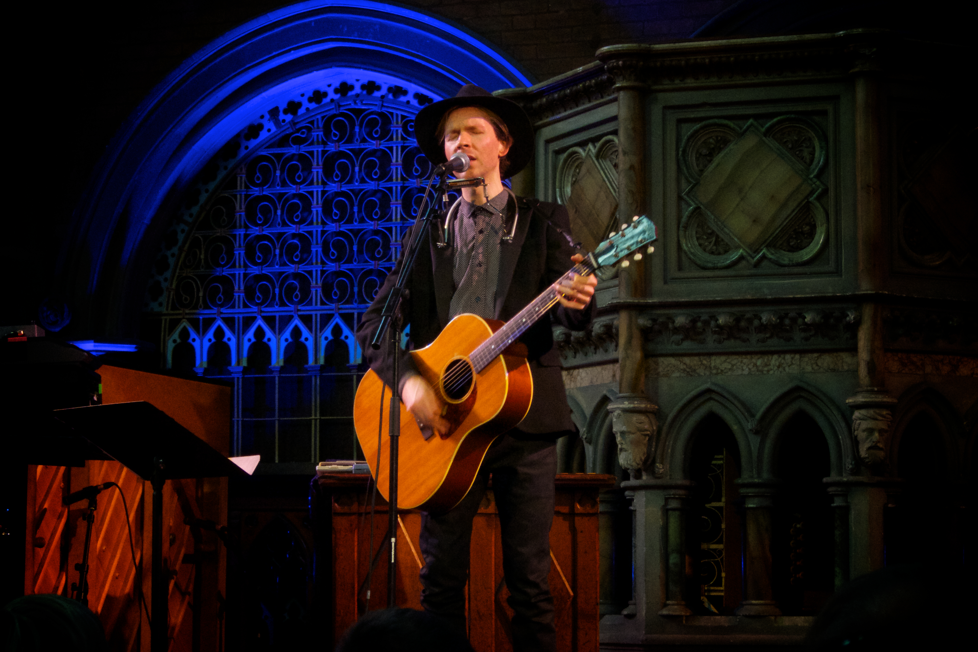 Beck performing at Union Chapel, London, England on 7th July 2013